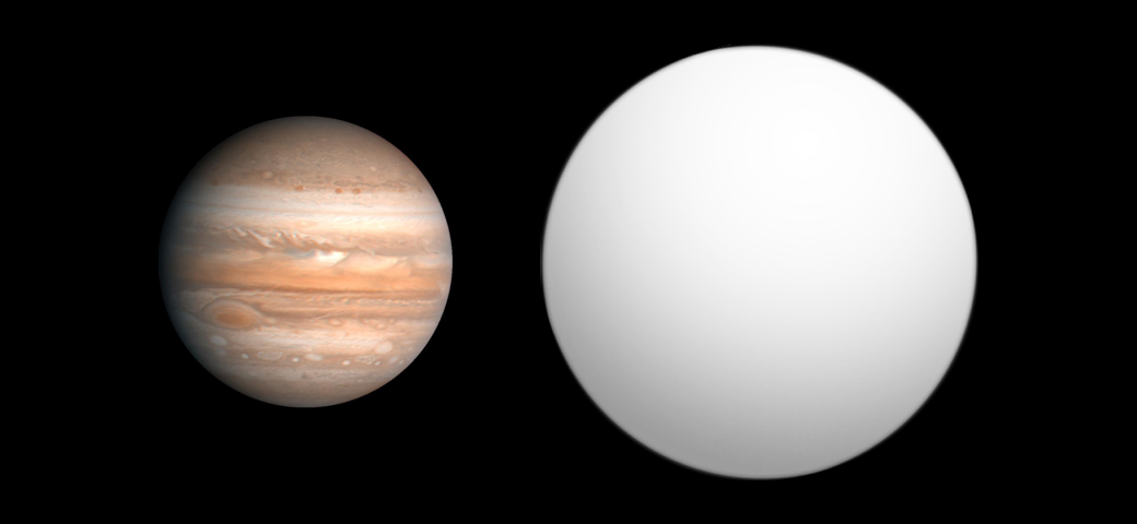 Comparison of best-fit size of the exoplanet WASP-1 b with the Solar System planet Jupiter, as reported in the Open Exoplanet Catalogue[1] as of 2015-11-14. ↑ Open Exoplanet Catalogue (2015-11-14). Retrieved on 2015-11-14.